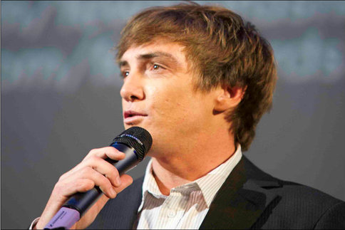 Candide Thovex at the Few Words premiere in Paris, France